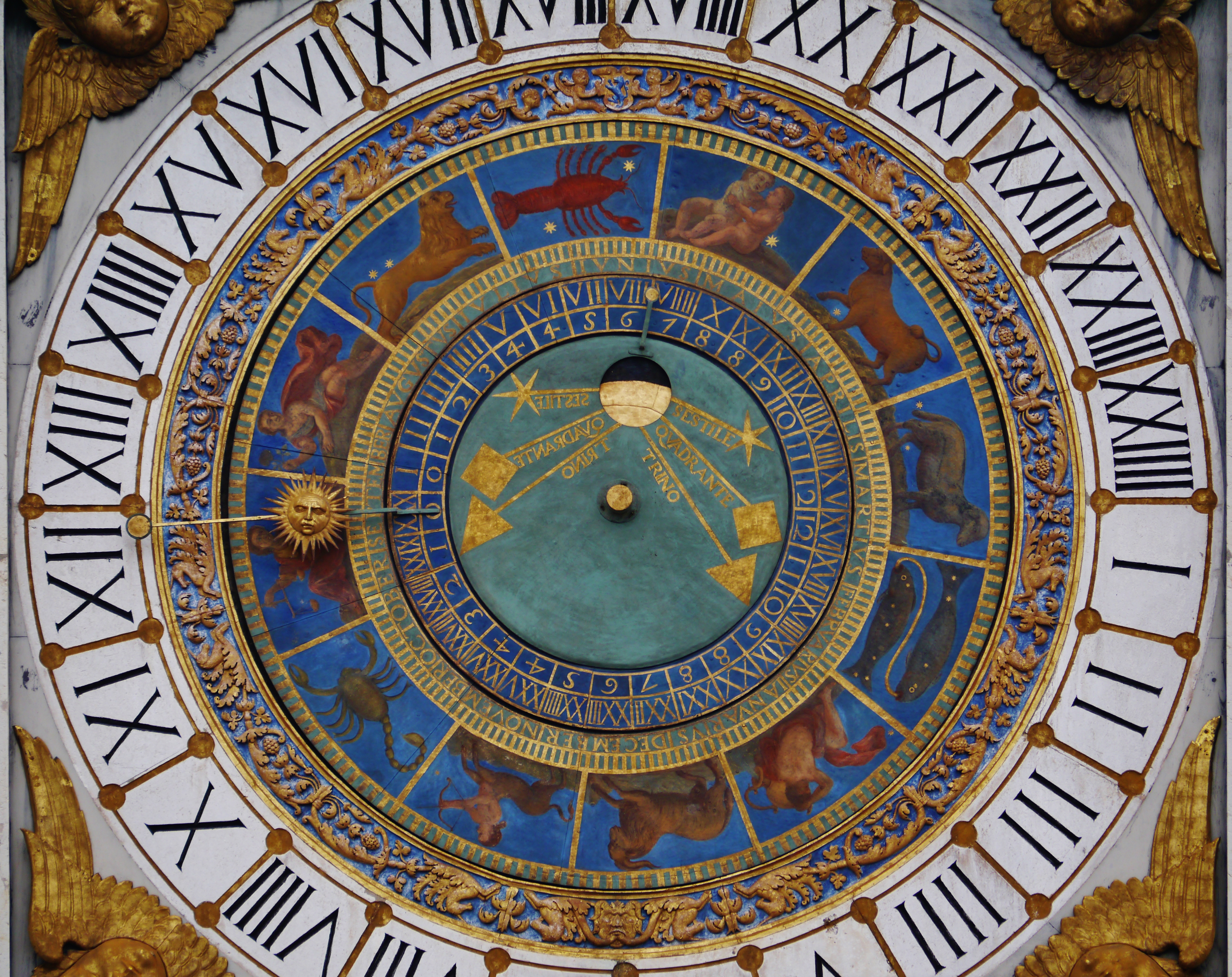 Dial of the Clock Tower at the Loggia Square, Brescia, Province of Brescia, Region of Lombardy, Italy